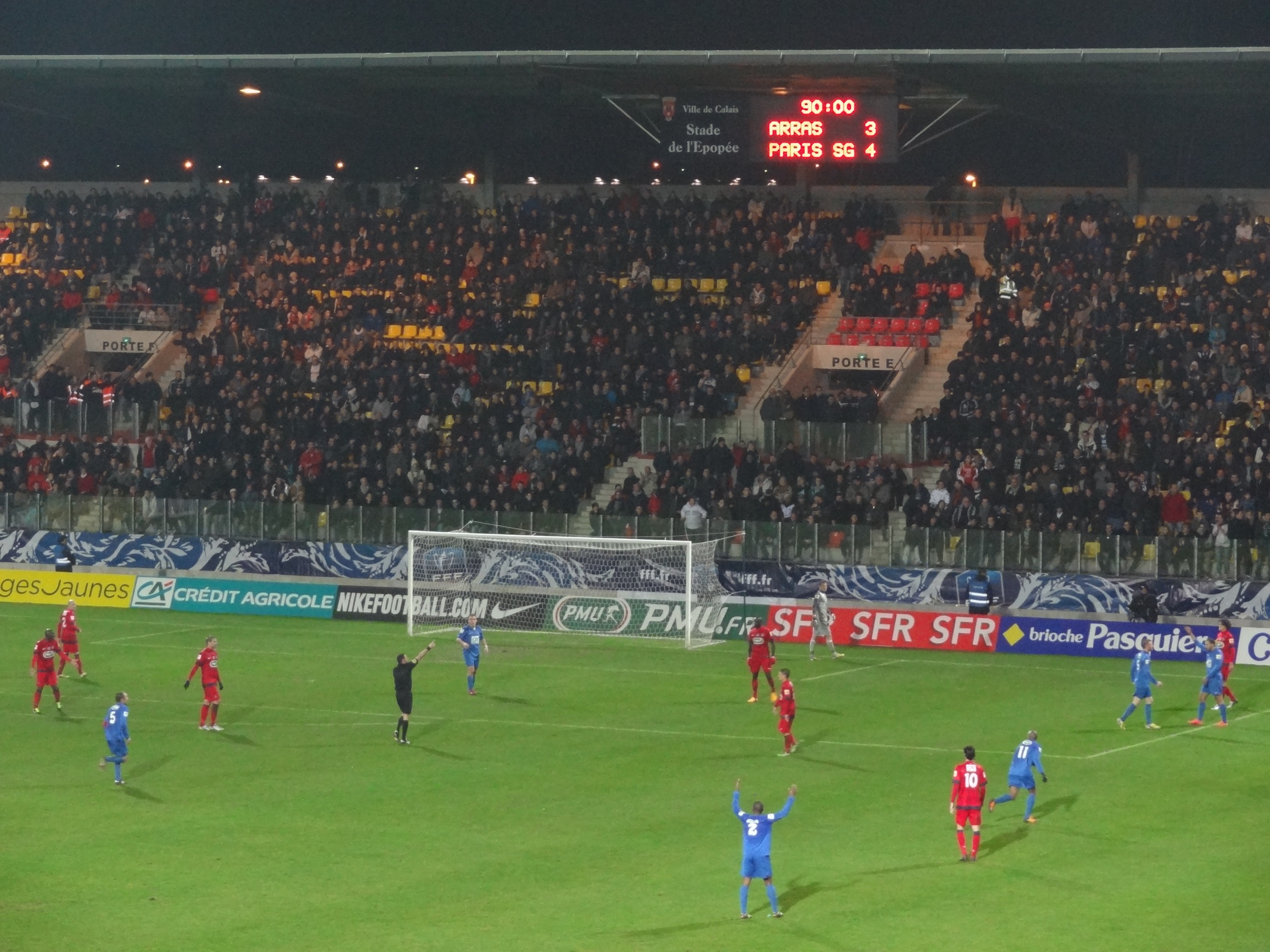 Arras - PSG, stade de l'Épopée (Calais)